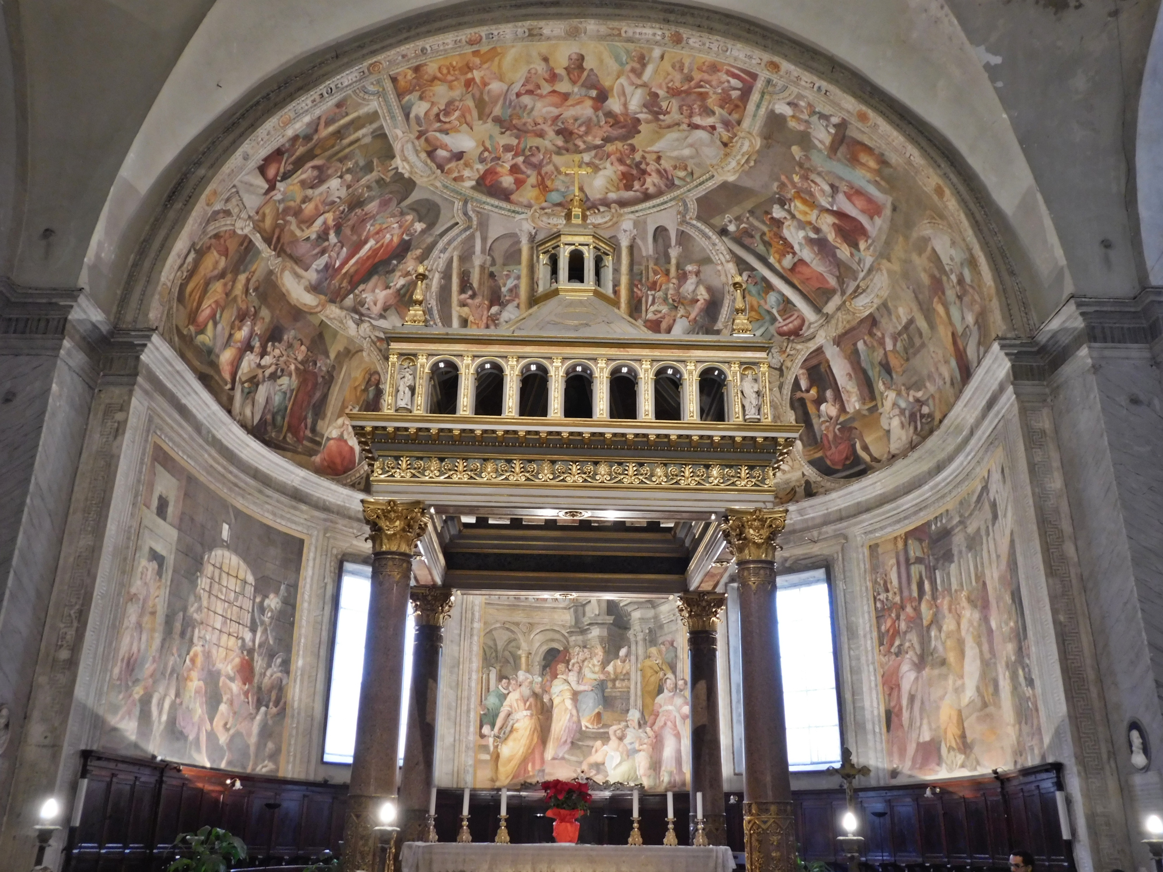 Saint Peter in Chains - minor basilica in Rome - main altar and apse